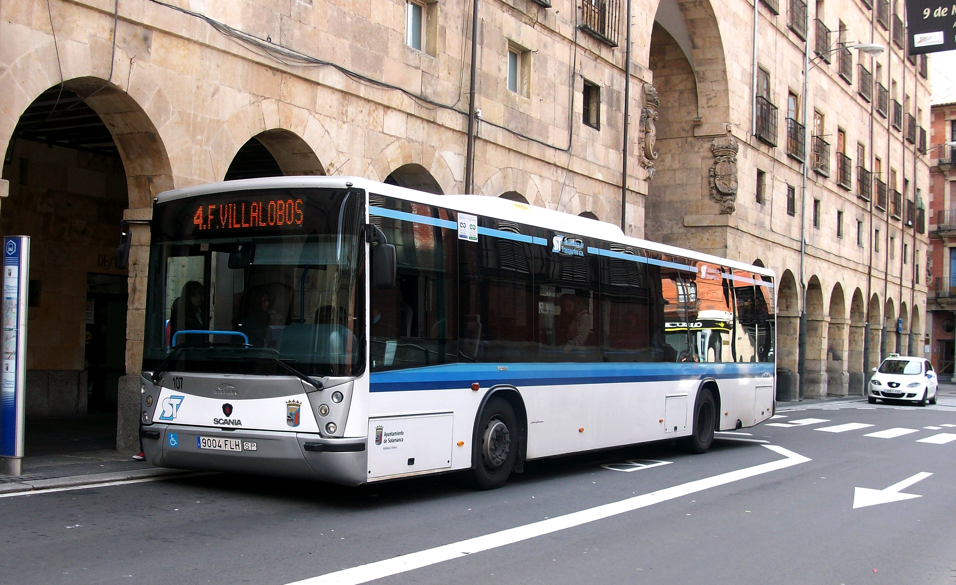 Bus "Salamanca de Transportees, Salamanca